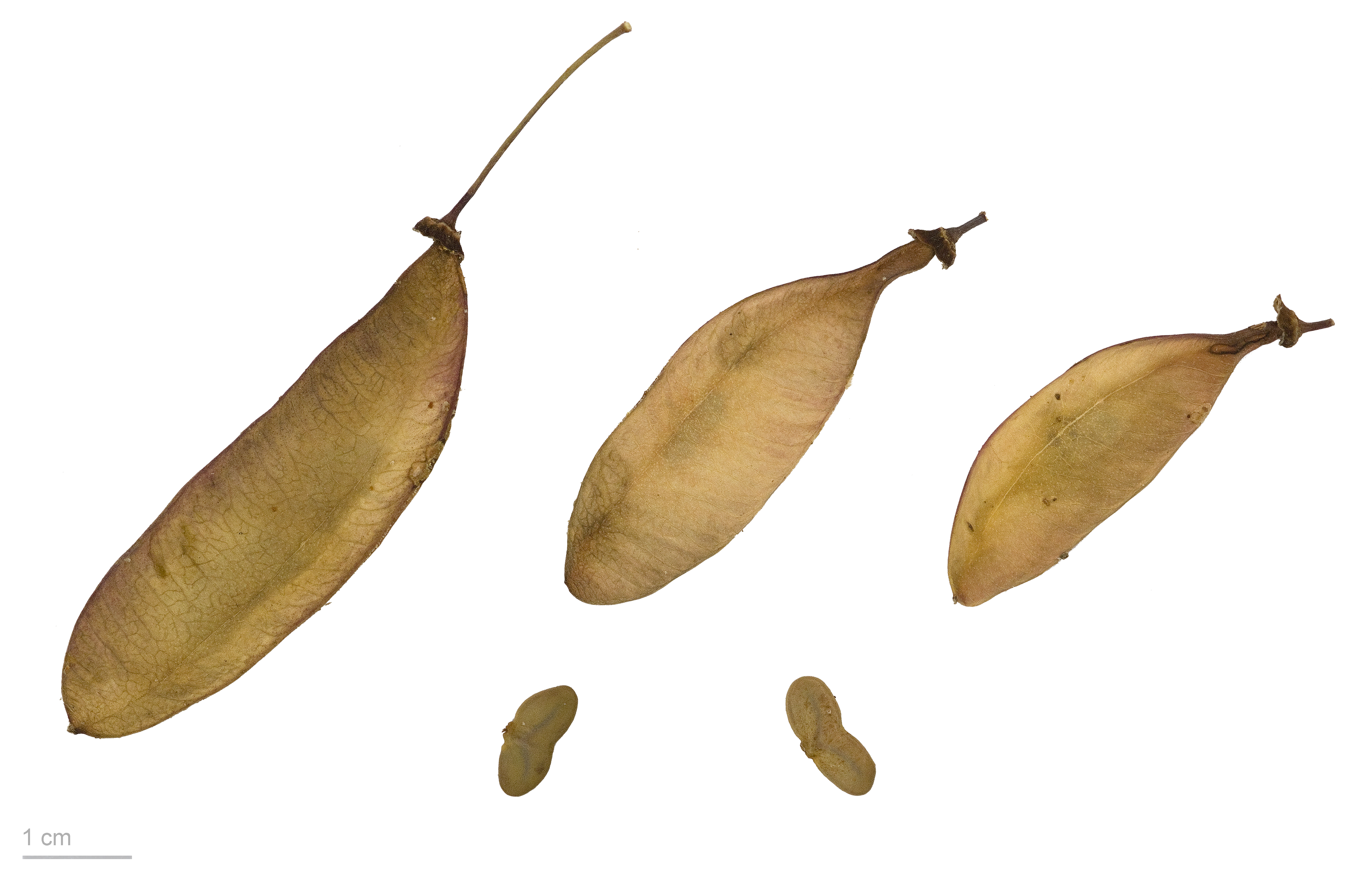 Haematoxylum brasiletto , fruits and seeds